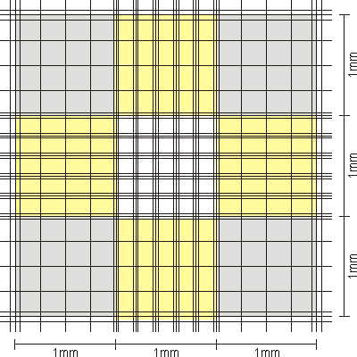 Schematic draft of a Neubauer improved counting chamber for cells